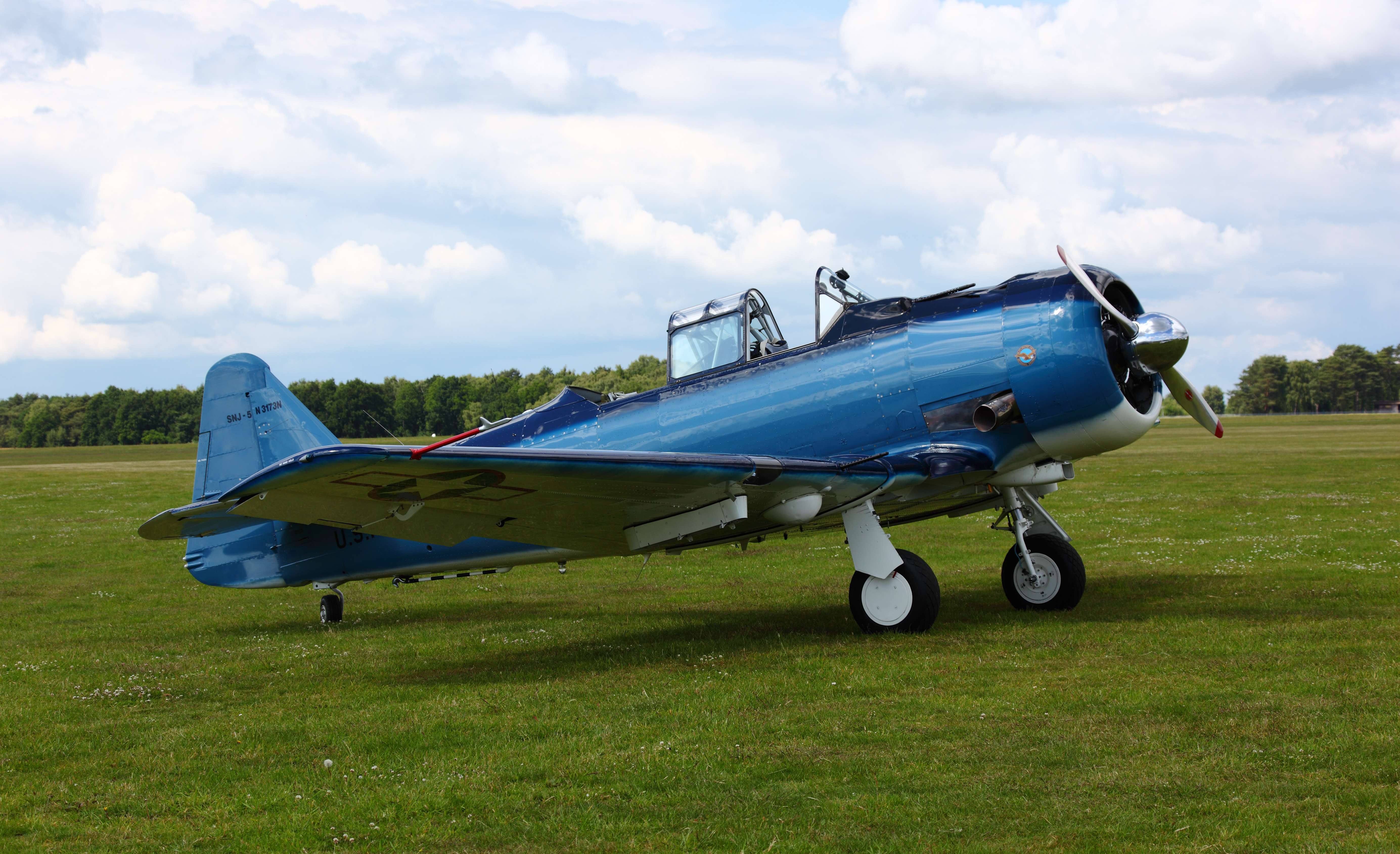 A North American AT6 at the Uetersen airport.